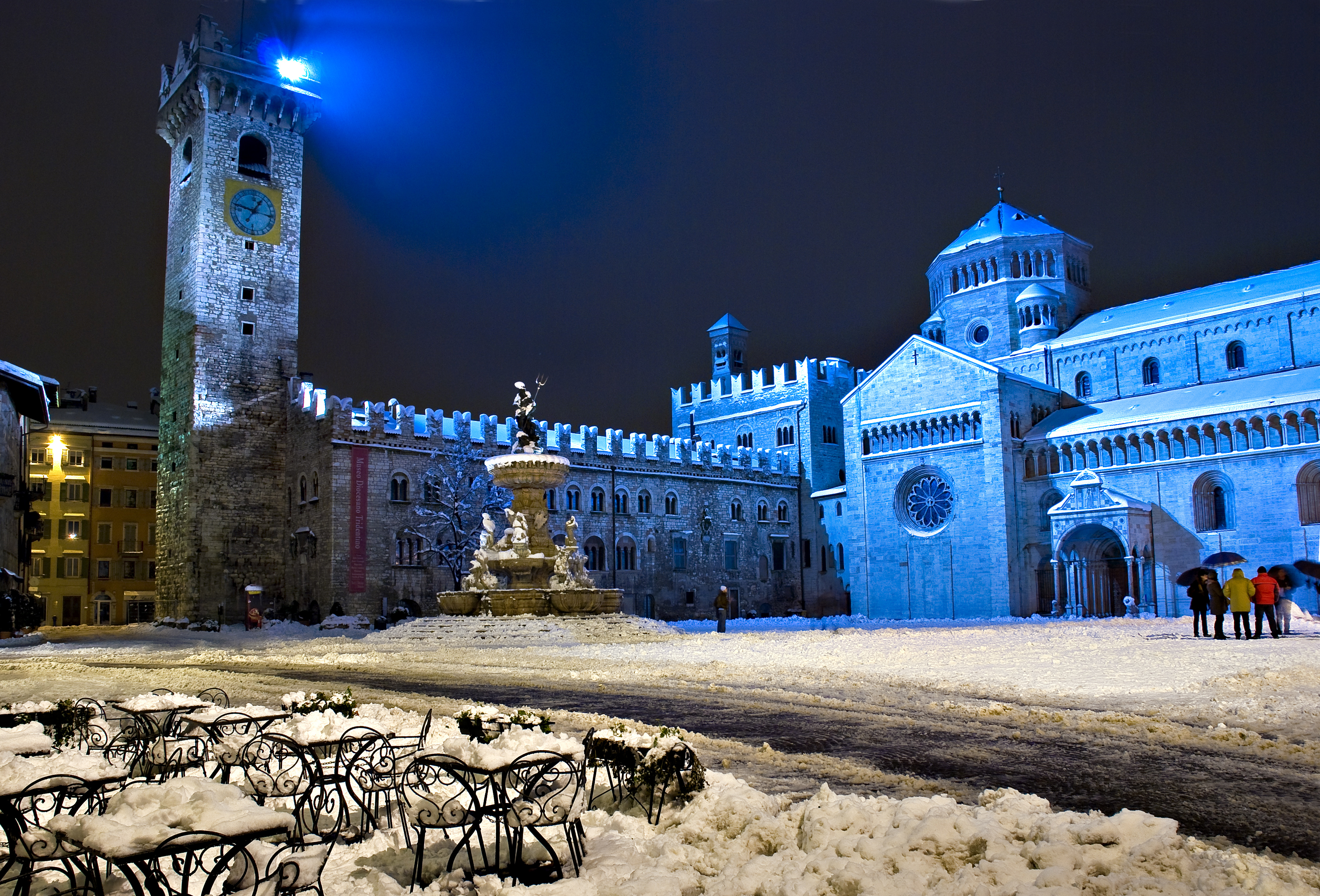 Trento, Piazza del Duomo in winter